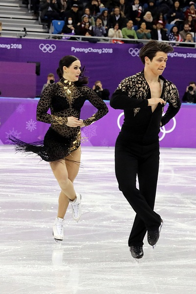 Tessa Virtue and Scott Moir at the 2018 Winter Olympic Games in PyeongChang